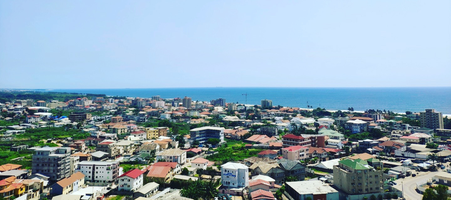 nice view from a tall building This is an image with the theme "Play" from: Congo